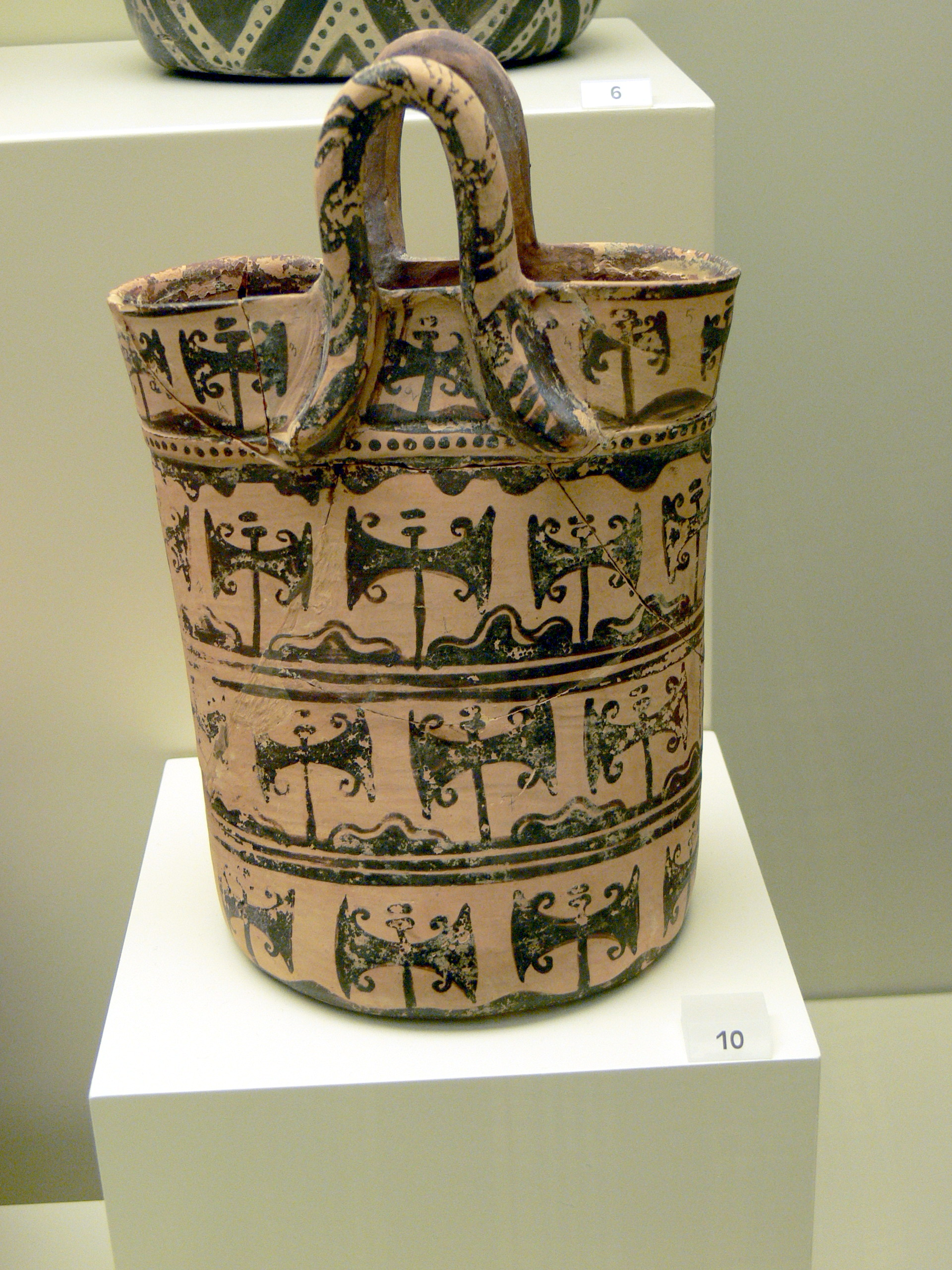 Archaeological Museum of Herakleion. Clay "bag" with Labrys-symbols from Psira, Eastern Crete. New Palace Period (LM I, 1700-1500 B.C.), Inv. Π 5407